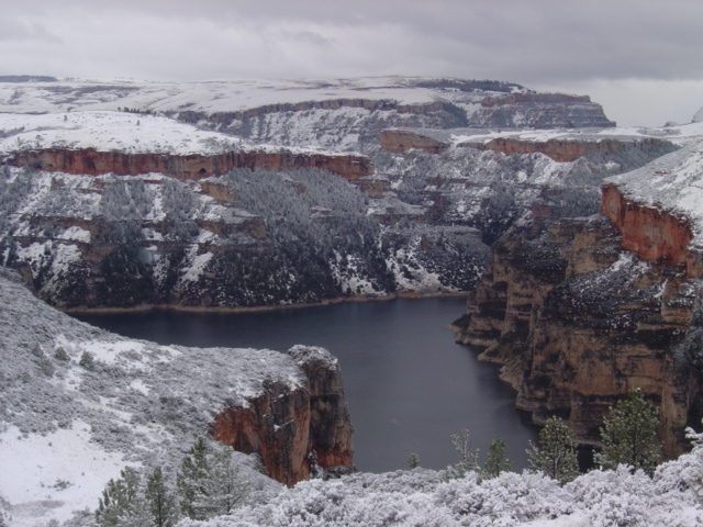 Snow on the Bighorn Canyon in the North District of Bighorn Canyon National Recreation Area, Montana